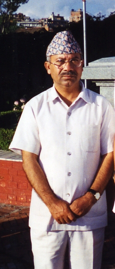 Photo: Soman